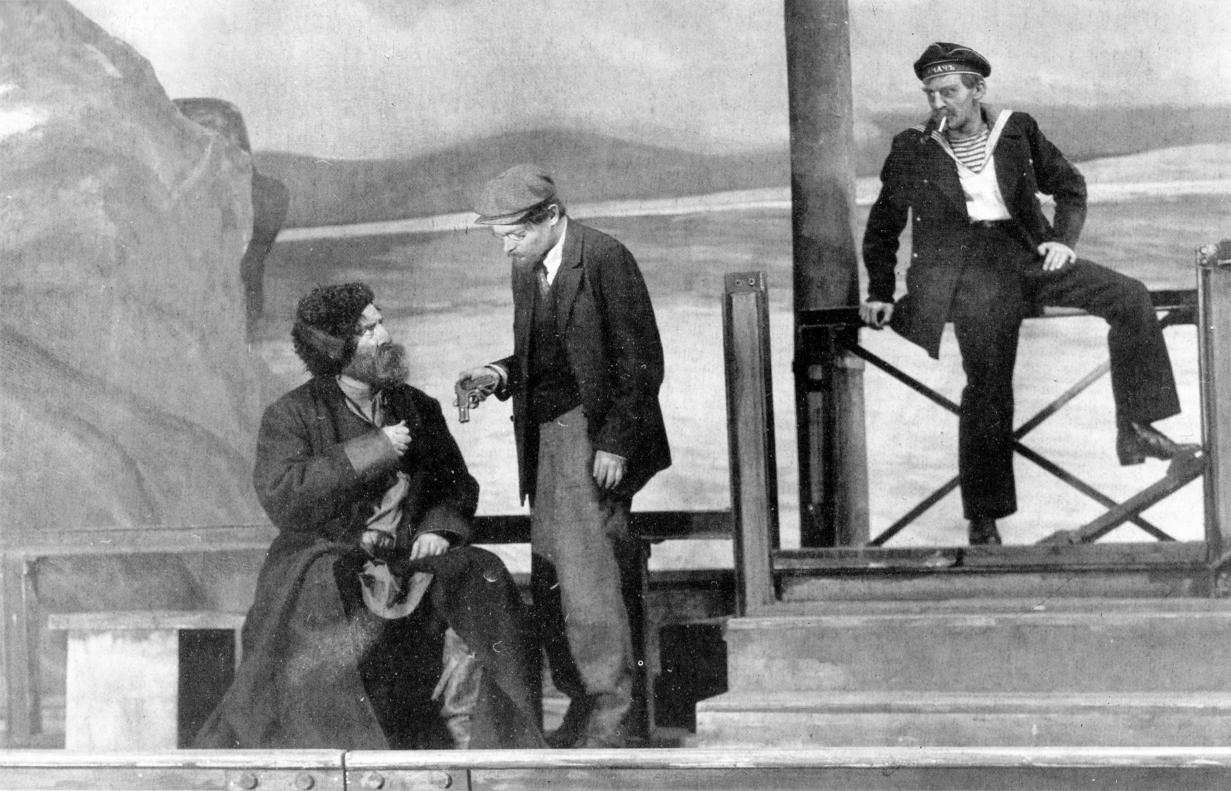 Vsevolod Ivanov's (Все́волод Вячесла́вович Ива́нов) play Armoured Train 14-69 (Бронепоезд 14-69, 1927), directed by Constantin Stanislavski. Photograph from the Moscow Art Theatre production.